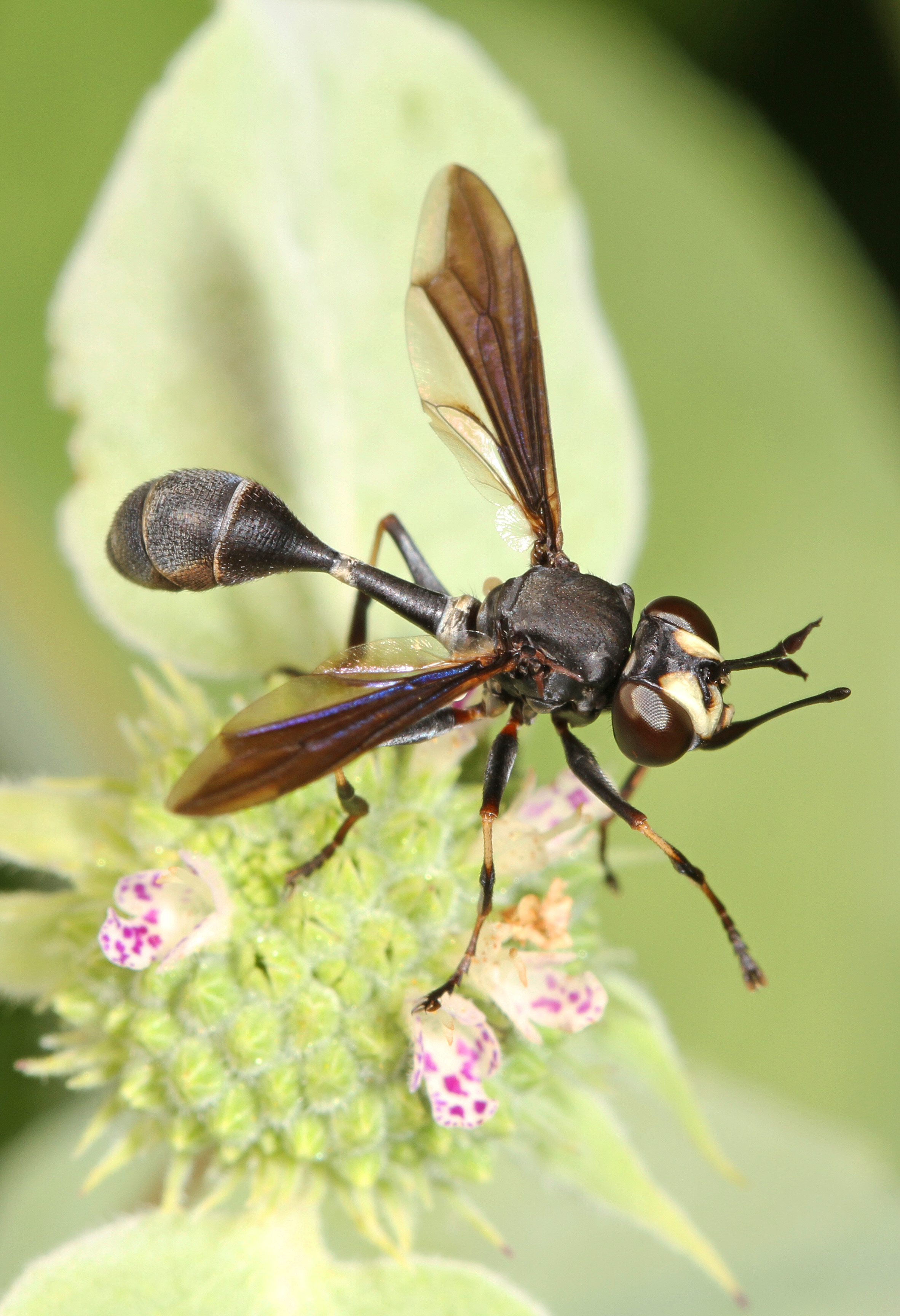 Thick-headed Fly - Physocephala tibialis, Meadowood Farm SRMA, Mason Neck, Virginia.